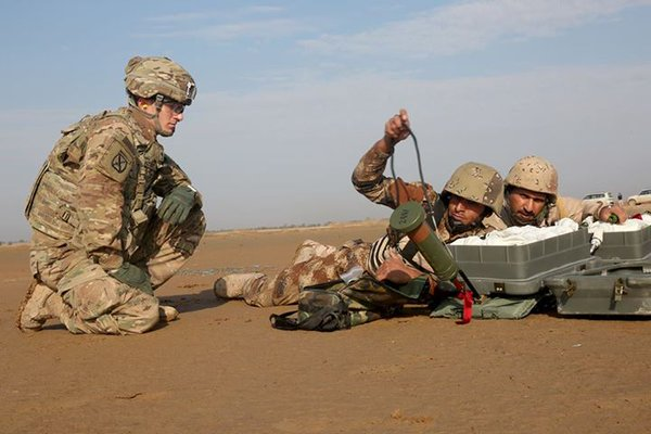 A U.S. Army Soldier advise & assists Iraqi soldiers during a training exercise at Besmaya Range Complex, Iraq, November 10, 2015.